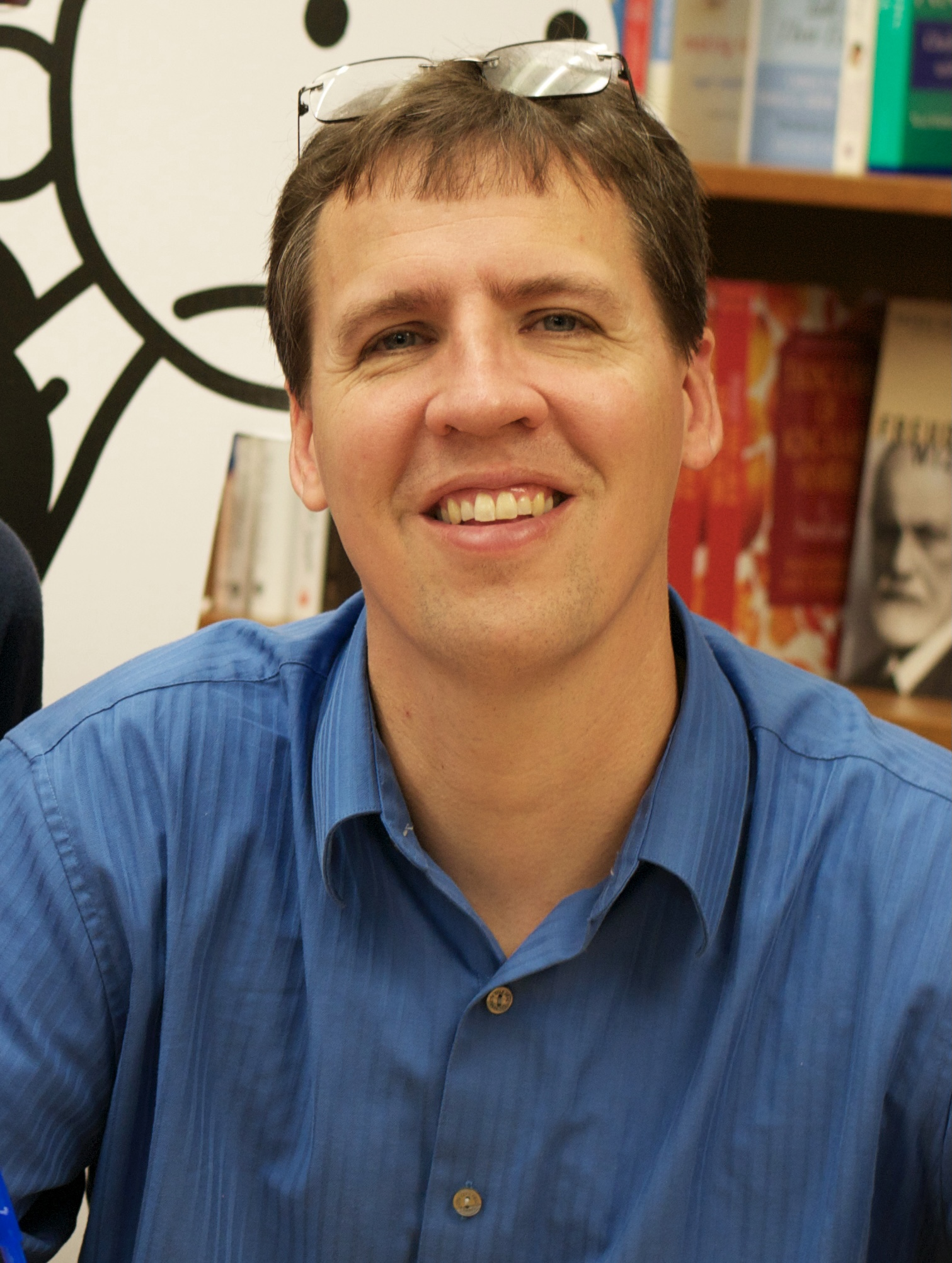 A photo of Wimpy Kid author, Jeff Kinney, during a book signing event in November 2011.